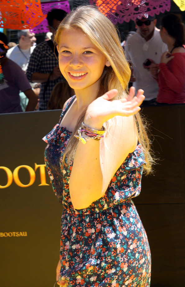 Bindi Irwin at the Puss in Boots 3D Premiere 2011.